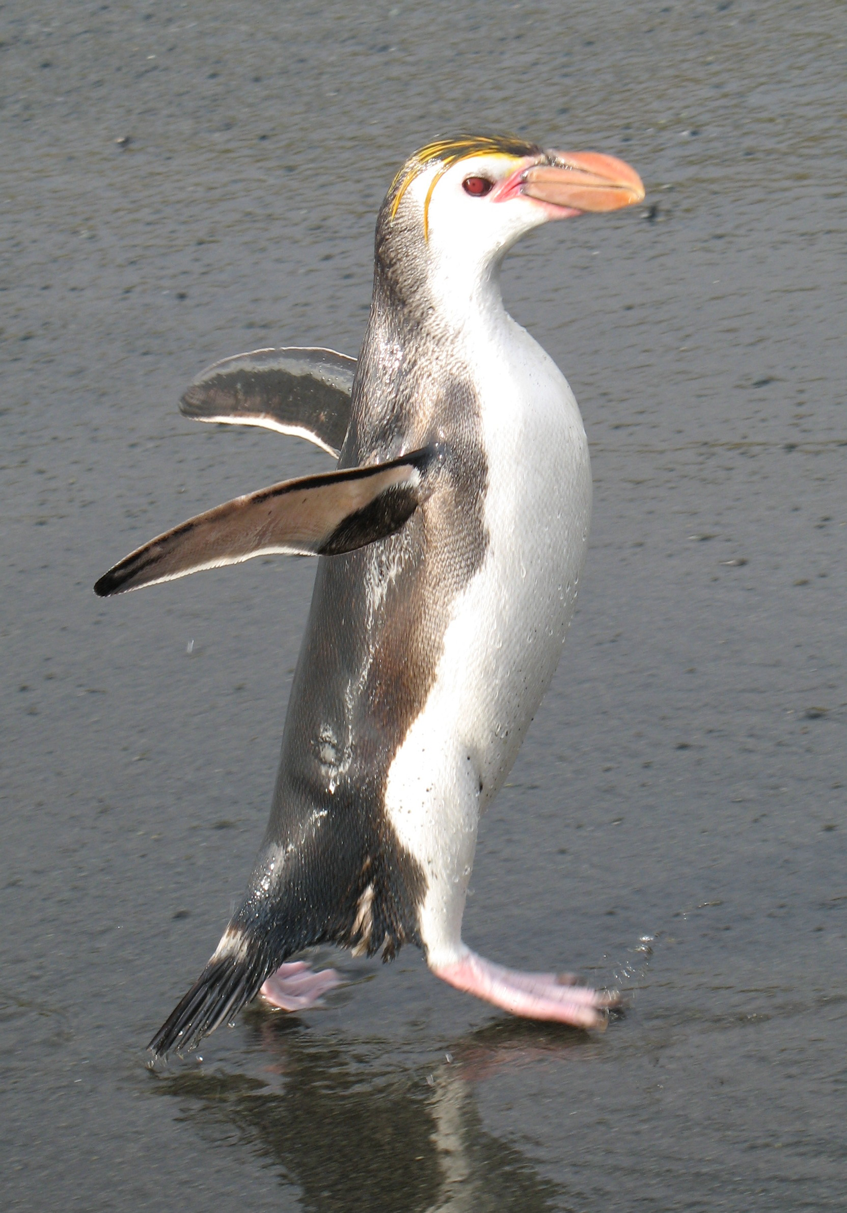 Photo of a Royal penguin on Macquarie Island (profile/side shot)